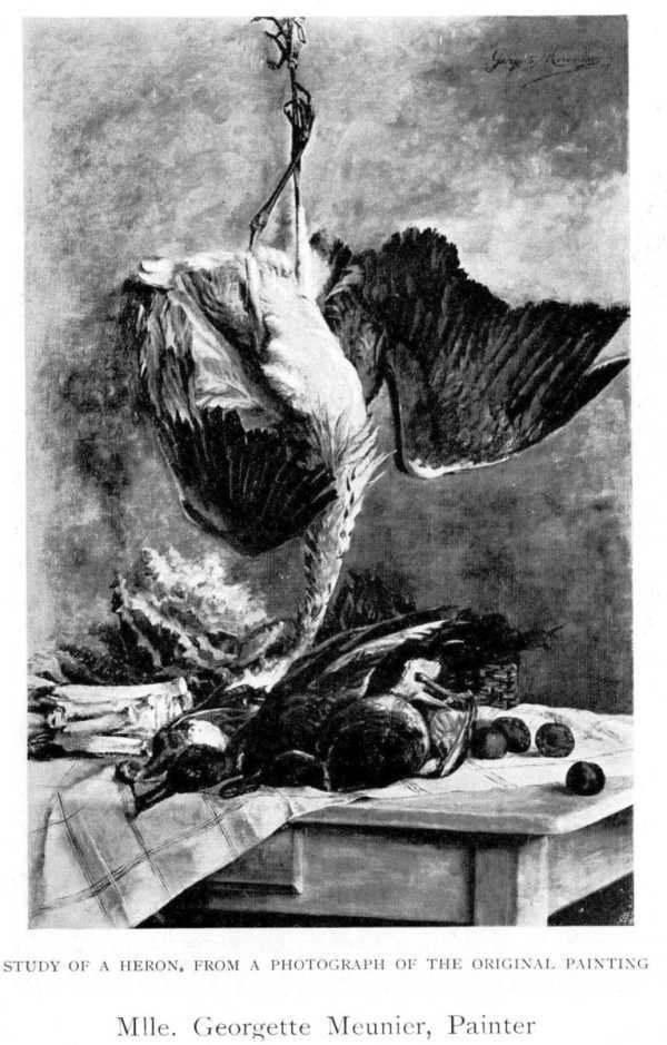 1905 print after page of Women painters of the world, from the time of Caterina Vigri, 1413-1463, to Rosa Bonheur and the present day, by Walter Shaw Sparrow, The Art and Life Library, Hodder & Stoughton, 27 Paternoster Row, London